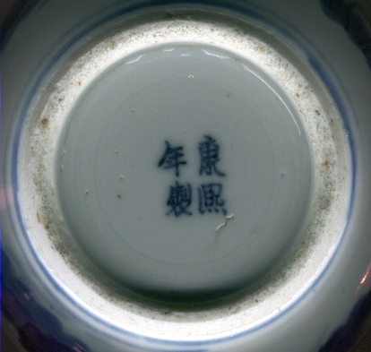 Kangxi reign mark on a piece of late nineteenth century blue and white porcelain.